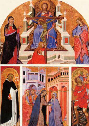 An altarpiece made up of four tableaux: the Holy Trinity (upper panel), the Visitation (lower centre panel), Saint Dominic (lower left panel), and Saint Christopher (lower right panel).